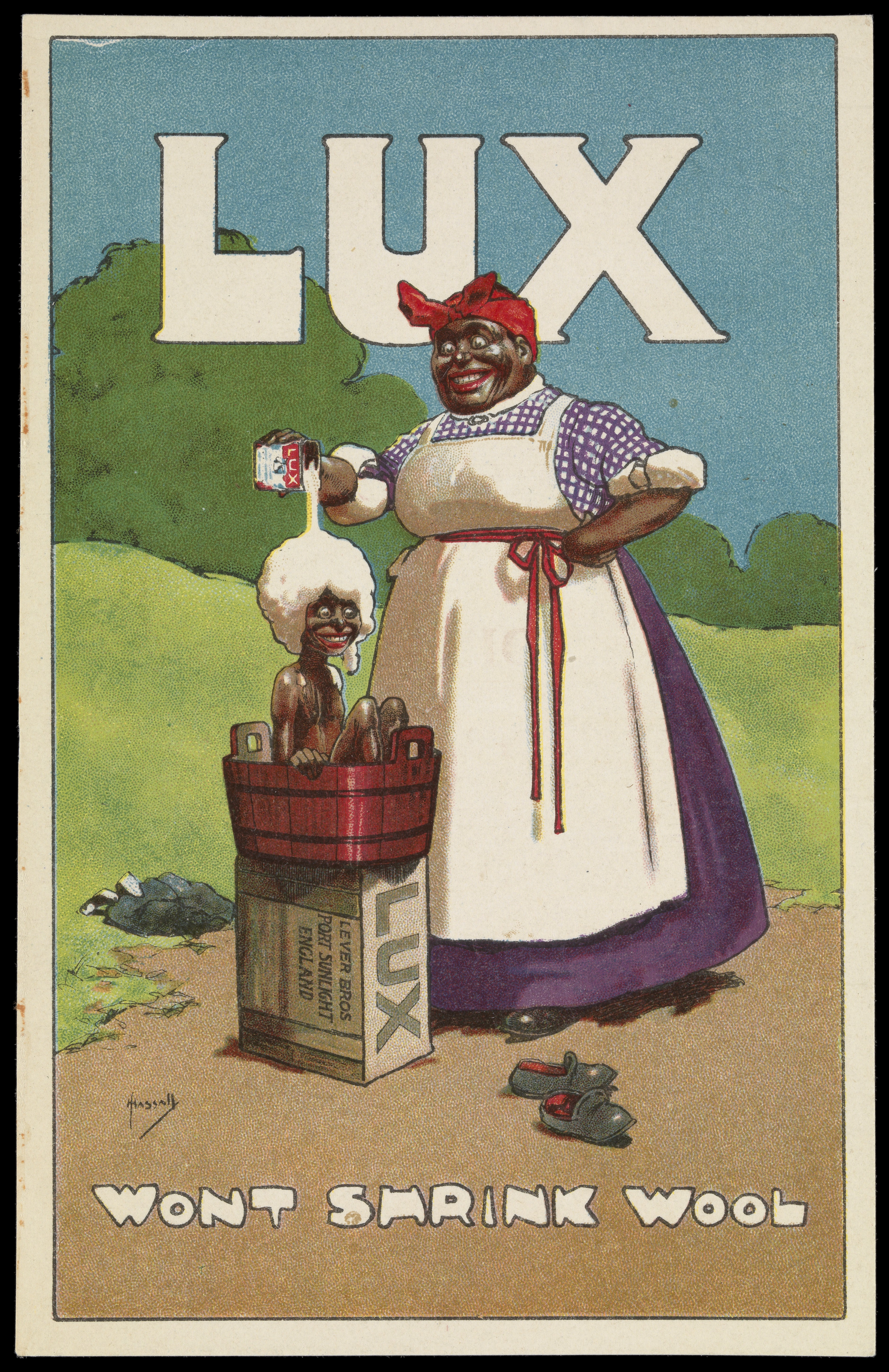 Advertising material for Lux washing soap. Tagline says "won't shrink wool." Image features a stereotypical depiction of a contemporary black mother washing her son's hair with the Lux powder. Her son sits in a bath atop a large box of Lux. General Collections Keywords: Bathing; Blacks; Lux.; Advertisment; Hygiene; Soap